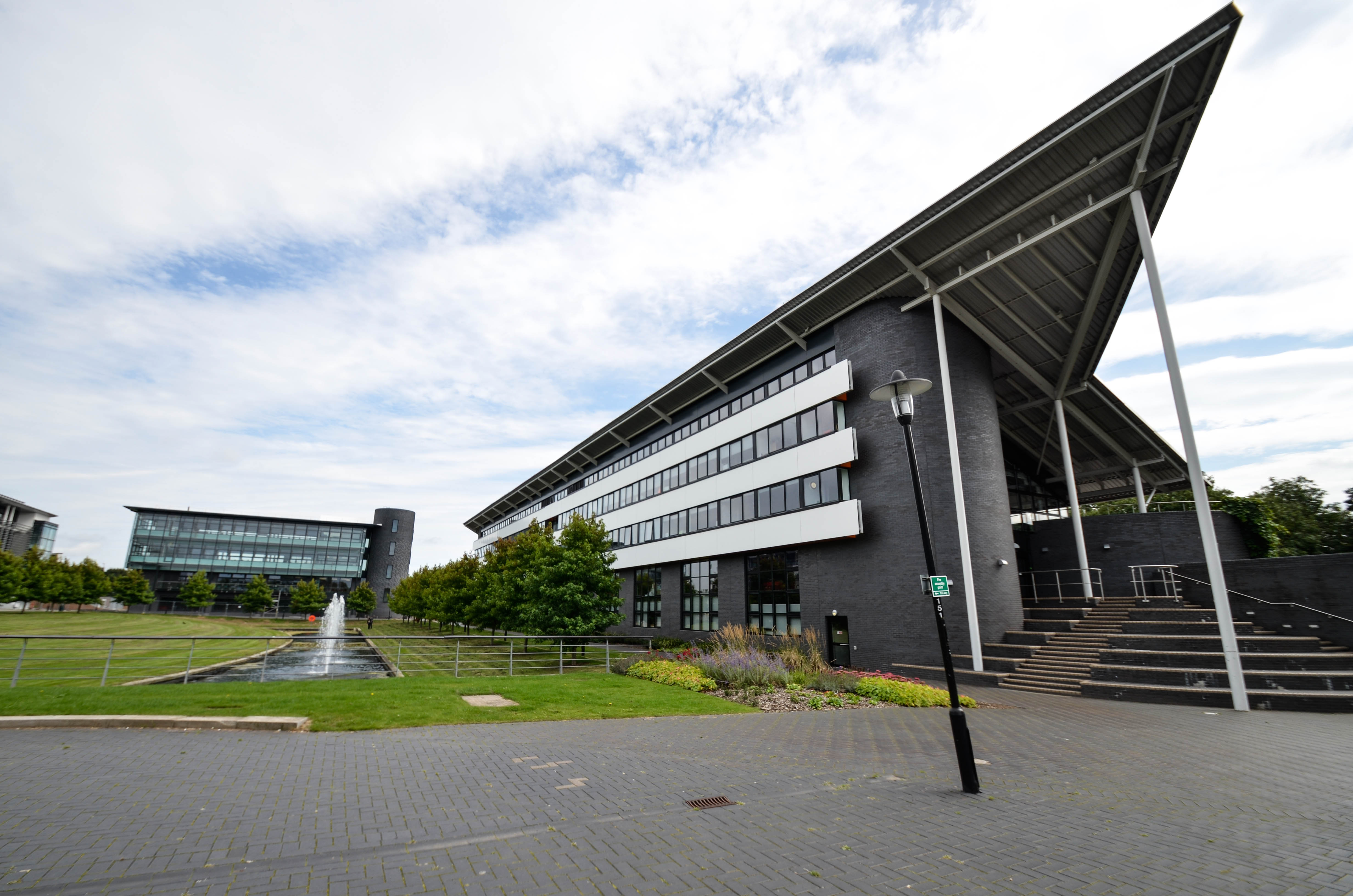 G1 - University of Warwick in Coventry, UK